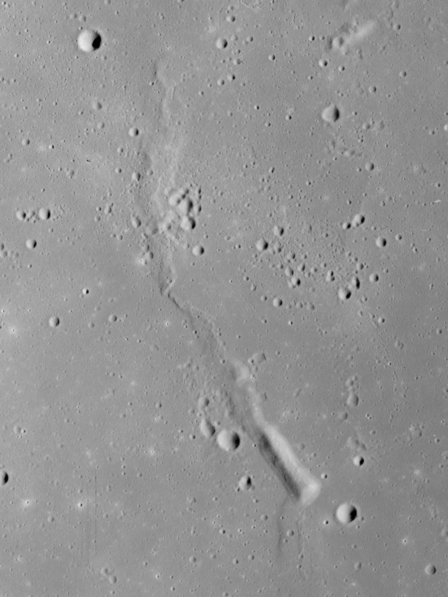 Part of Dorsum Bucher, on the moon.